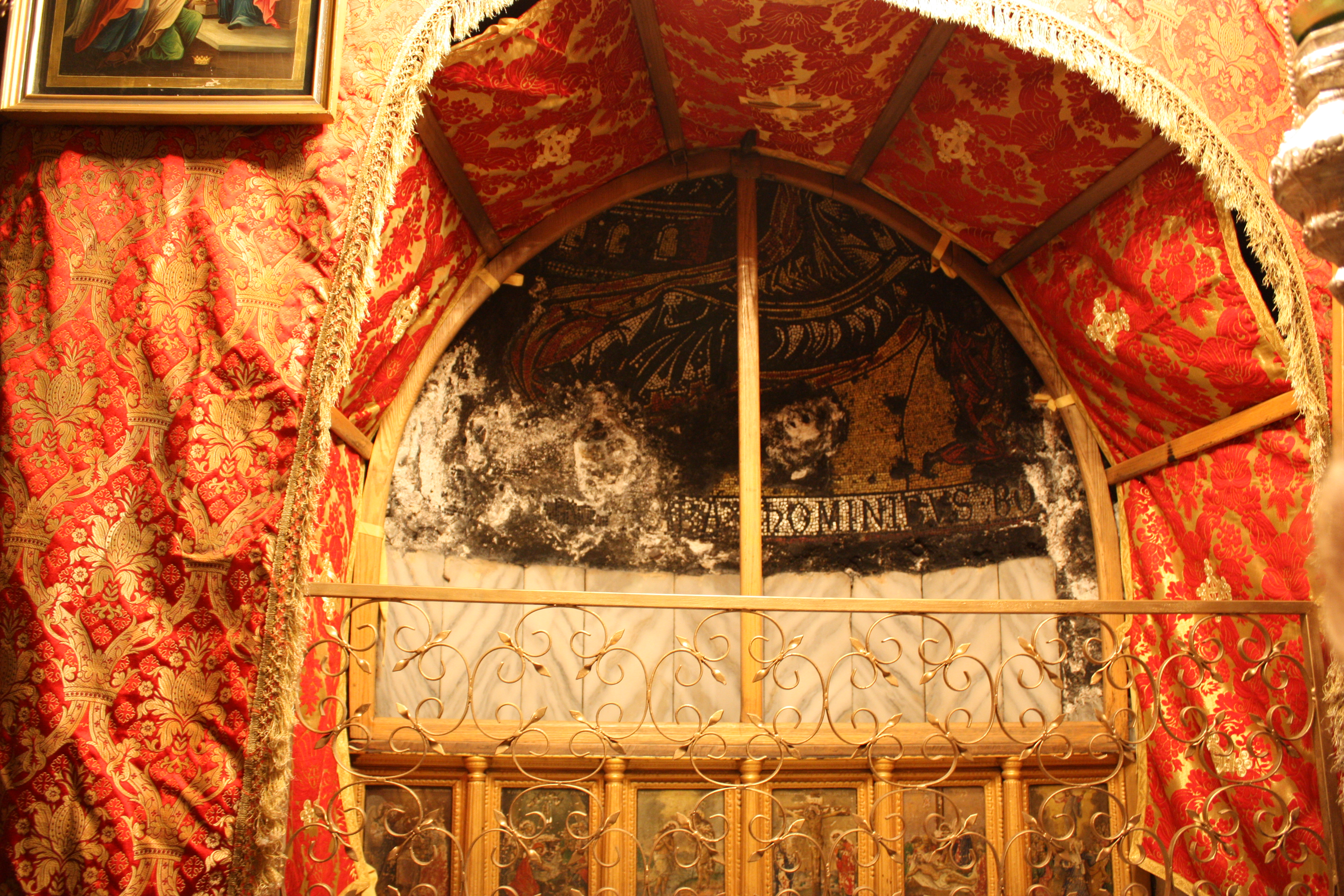 Altar marking the birthplace of Jesus Christ in the Grotto of the Nativity.